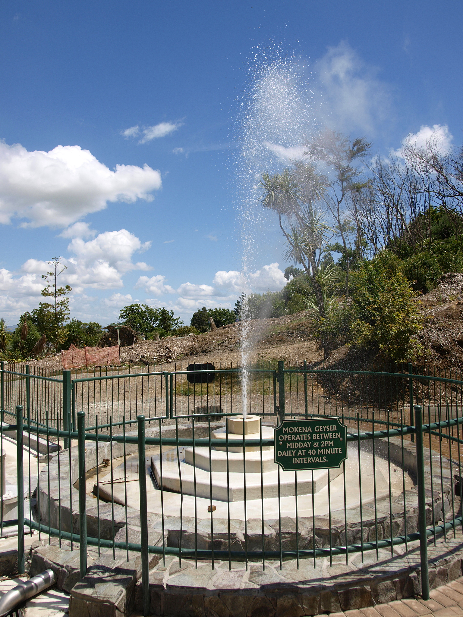 Mokena Geyser in Te Aroha, Waikato, North Island, New Zealand